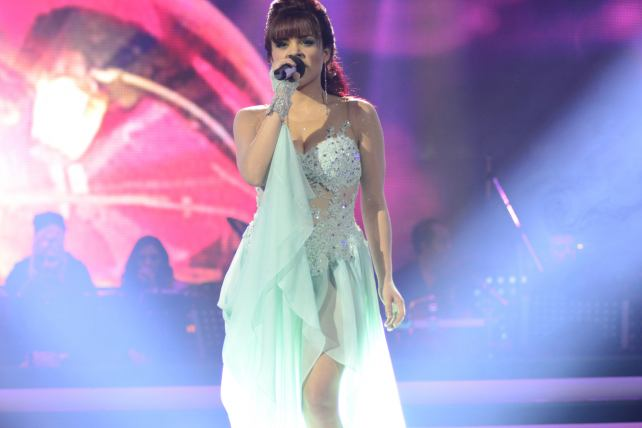 Persona Puertirriqueña